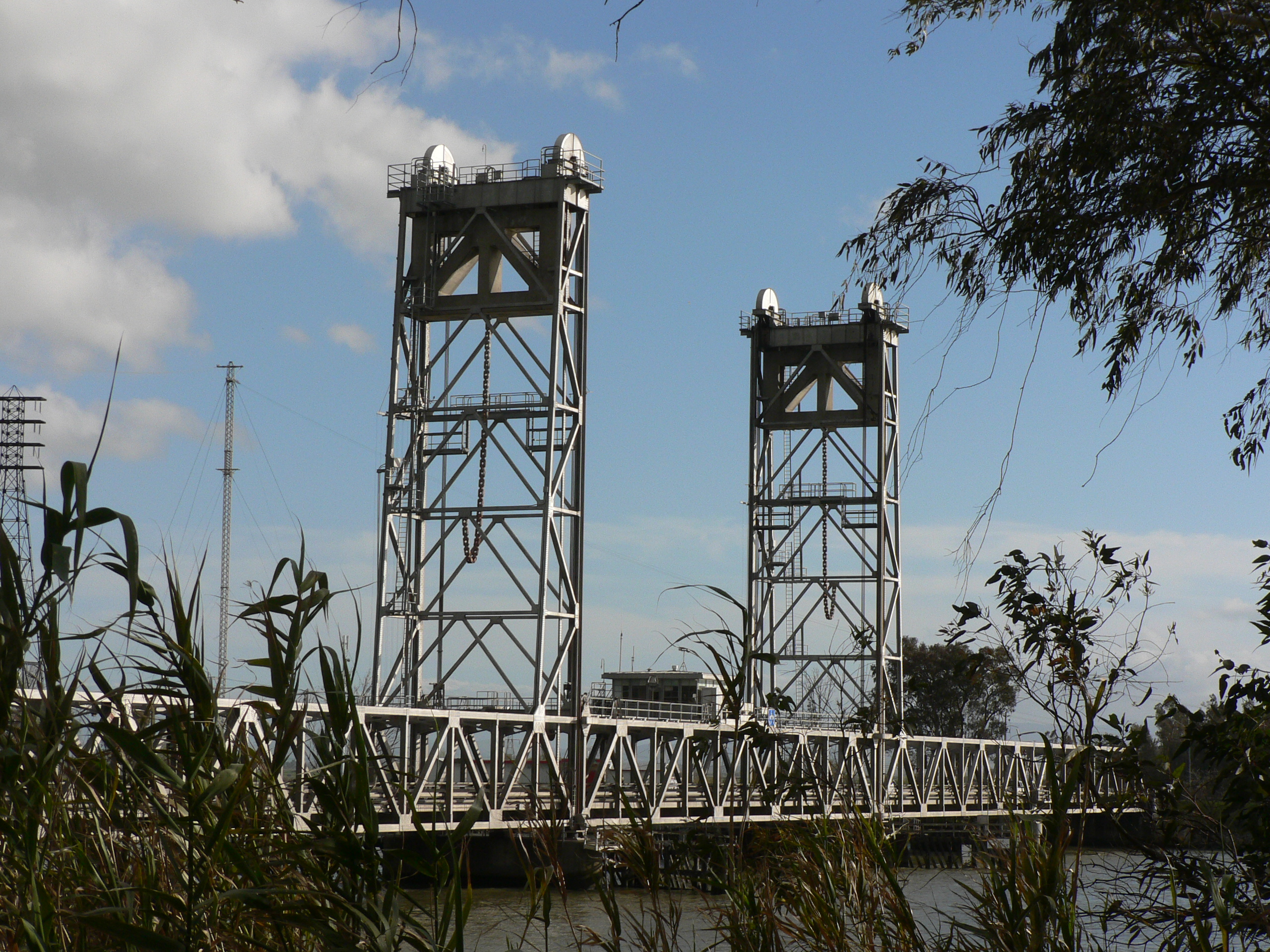 The 1949 Three Mile Slough Bridge for State Route 160 in the Sacramento River Delta